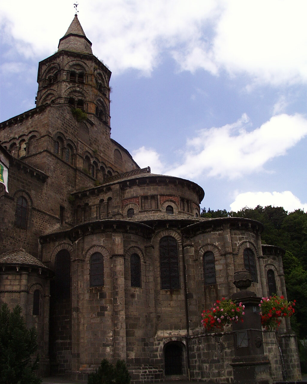 Basilica Our Lady of Orcival (Auvergne, France), 12–13th centuries.